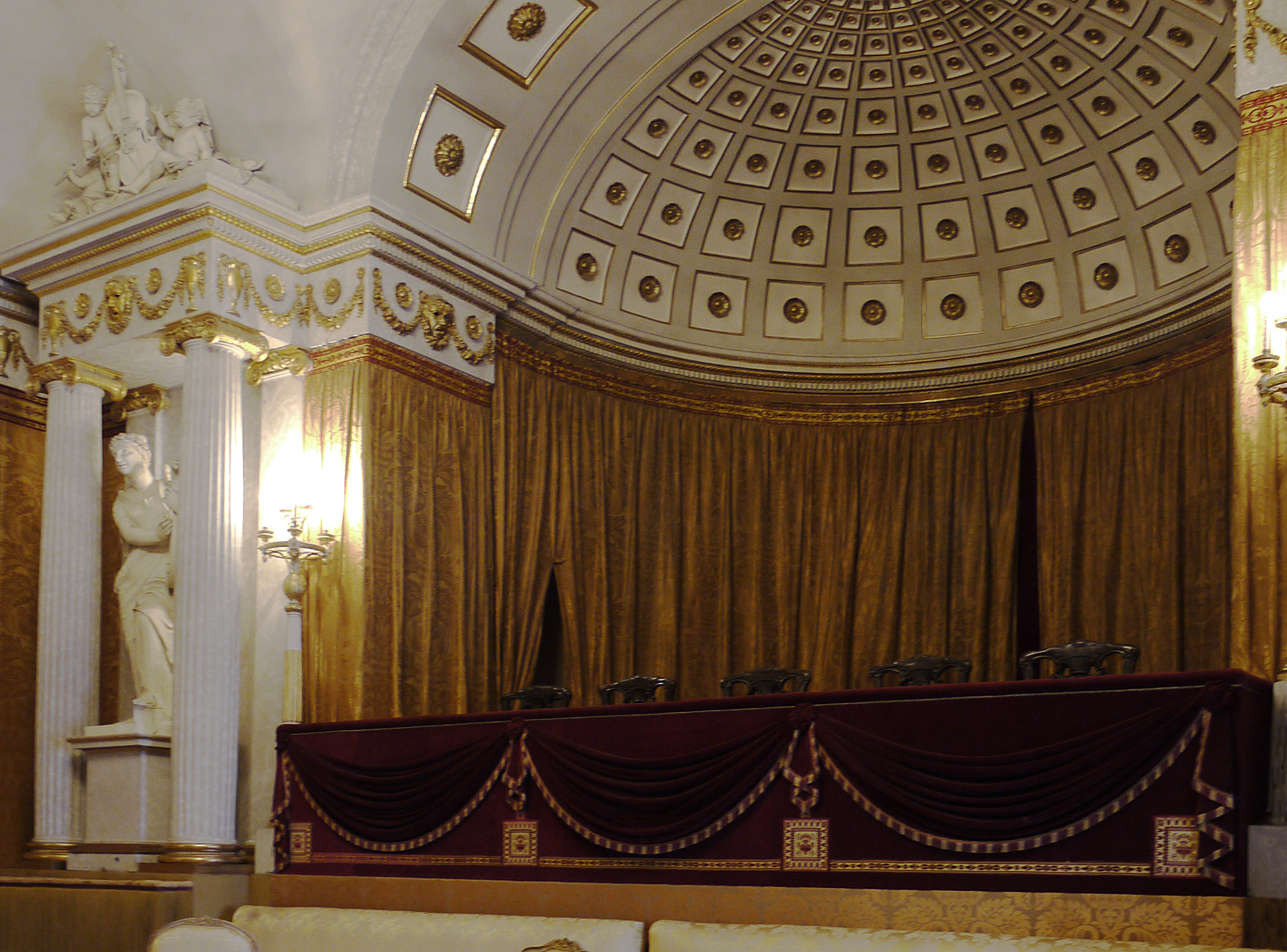 Palacio Real de El Pardo, the Theatre in Madrid, Spain.